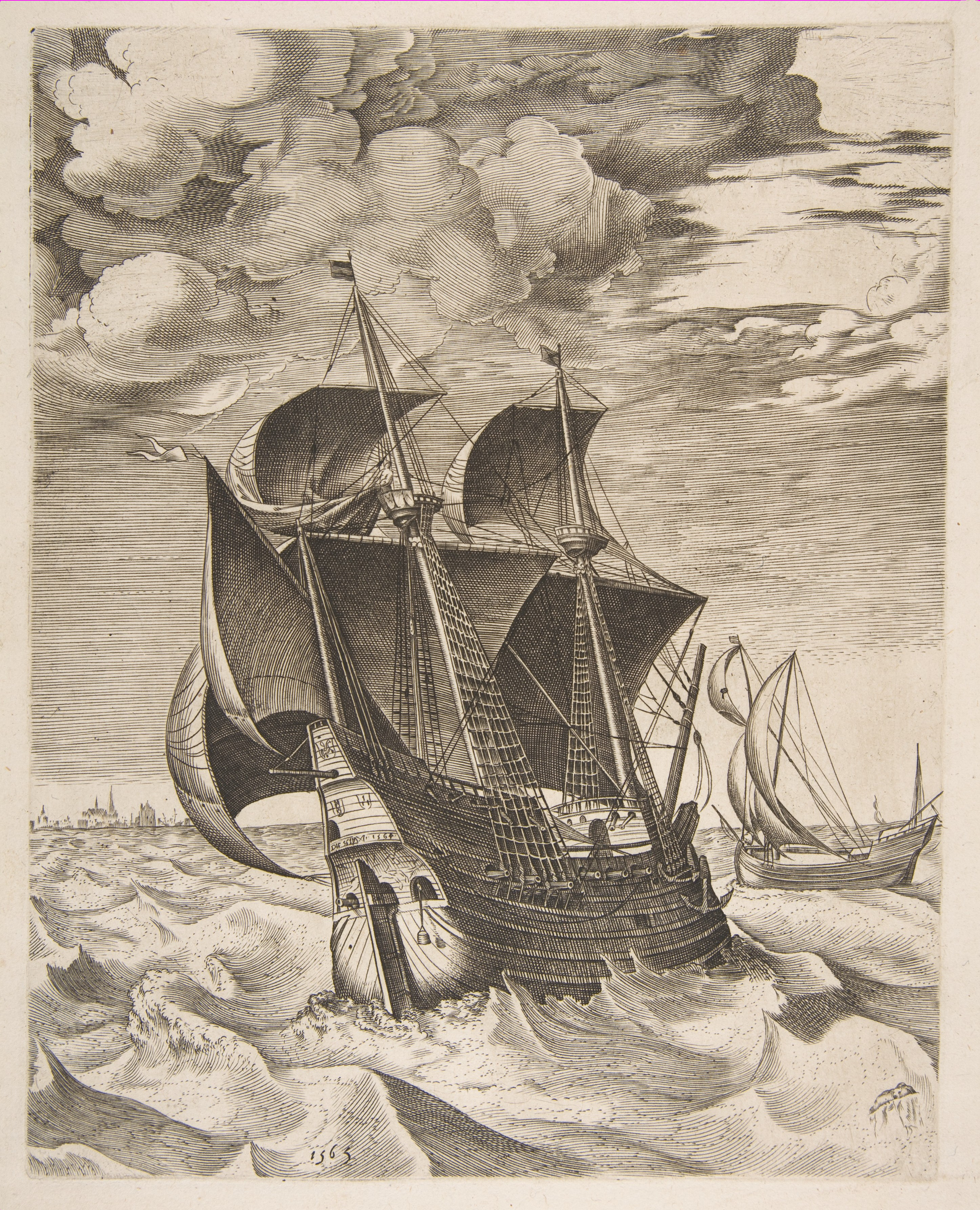 Print; Prints